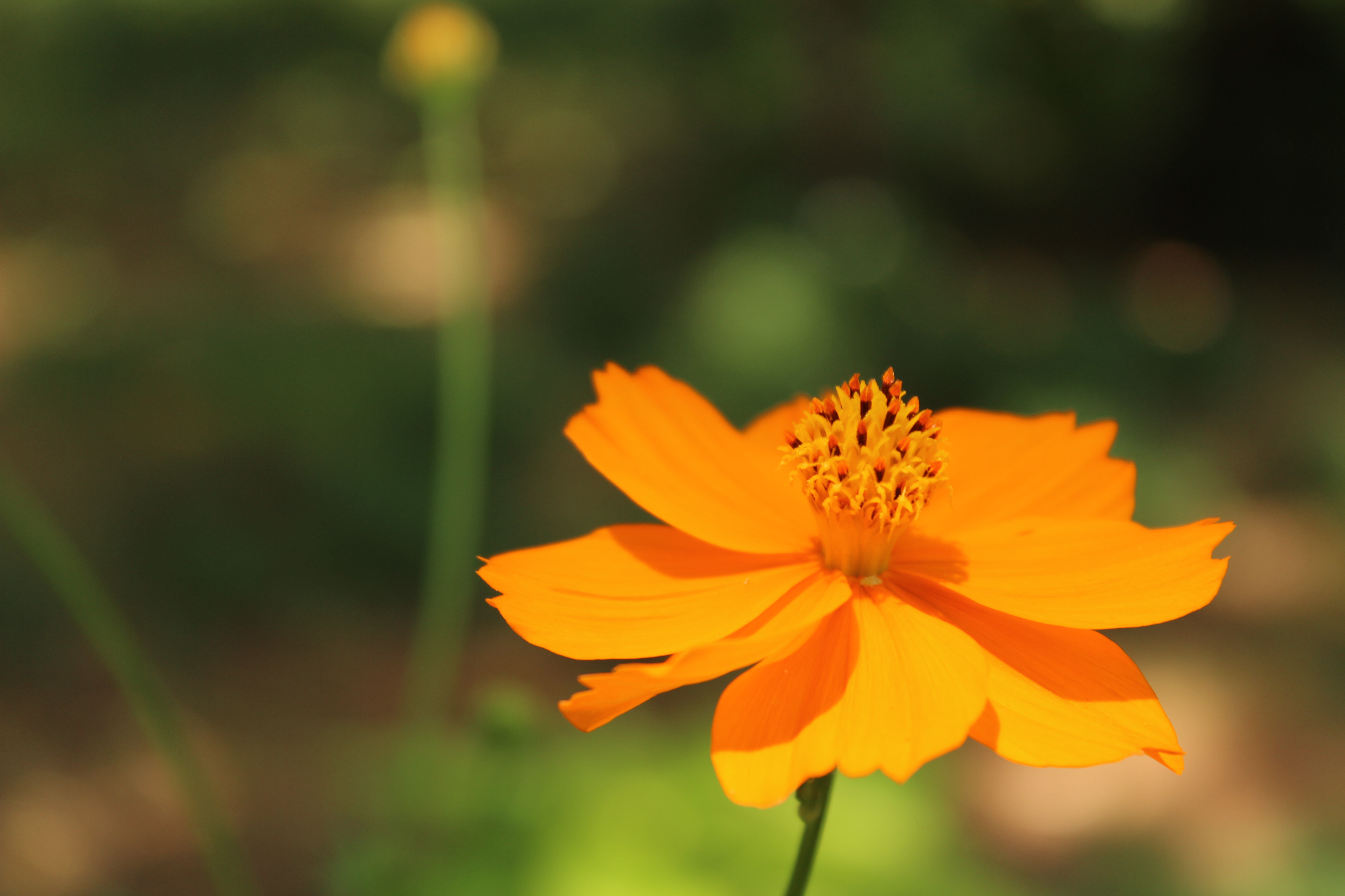 Nehru zoological Park, Hyderabad